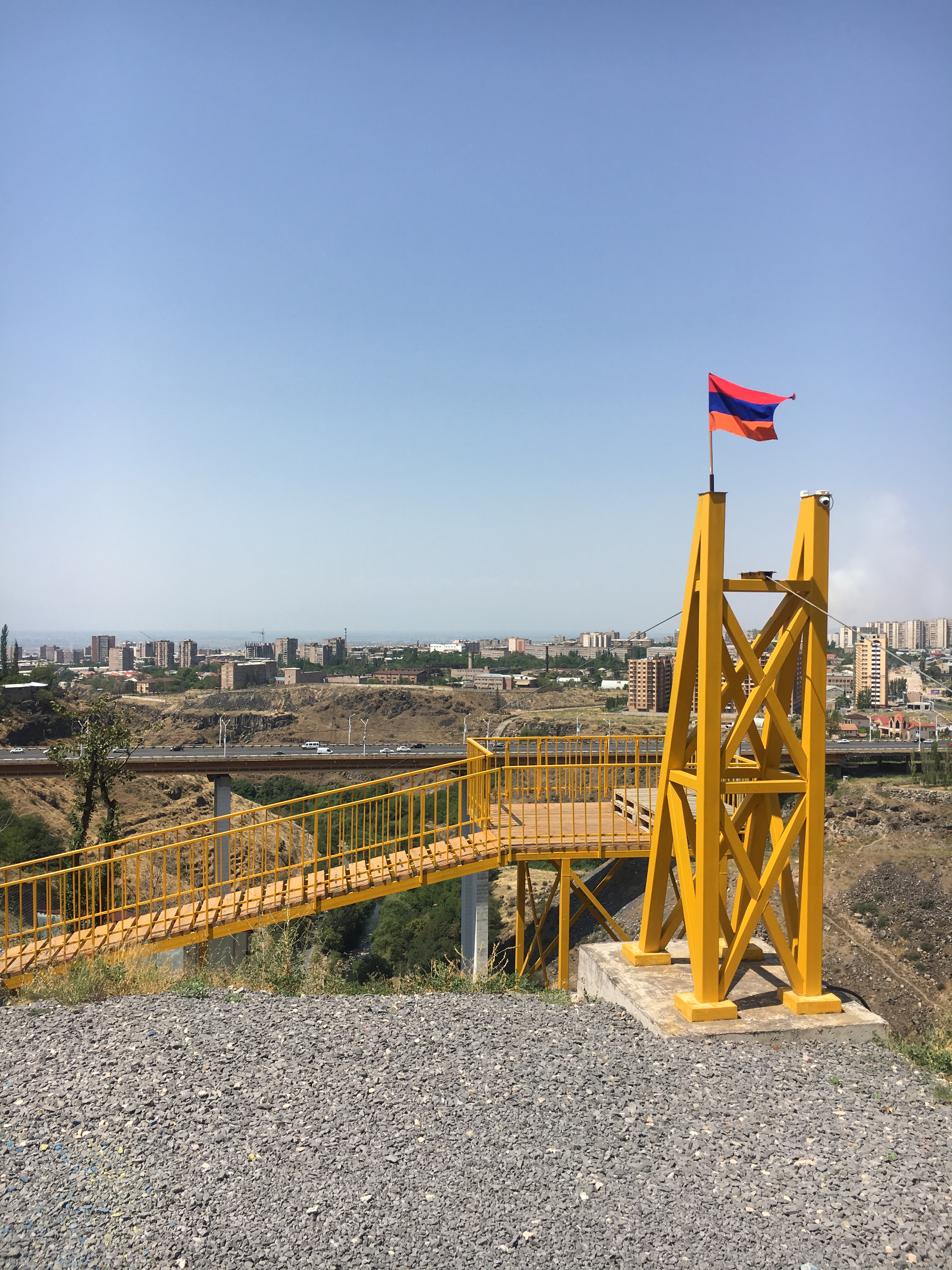 Yerevan ZipLine Airlines 16